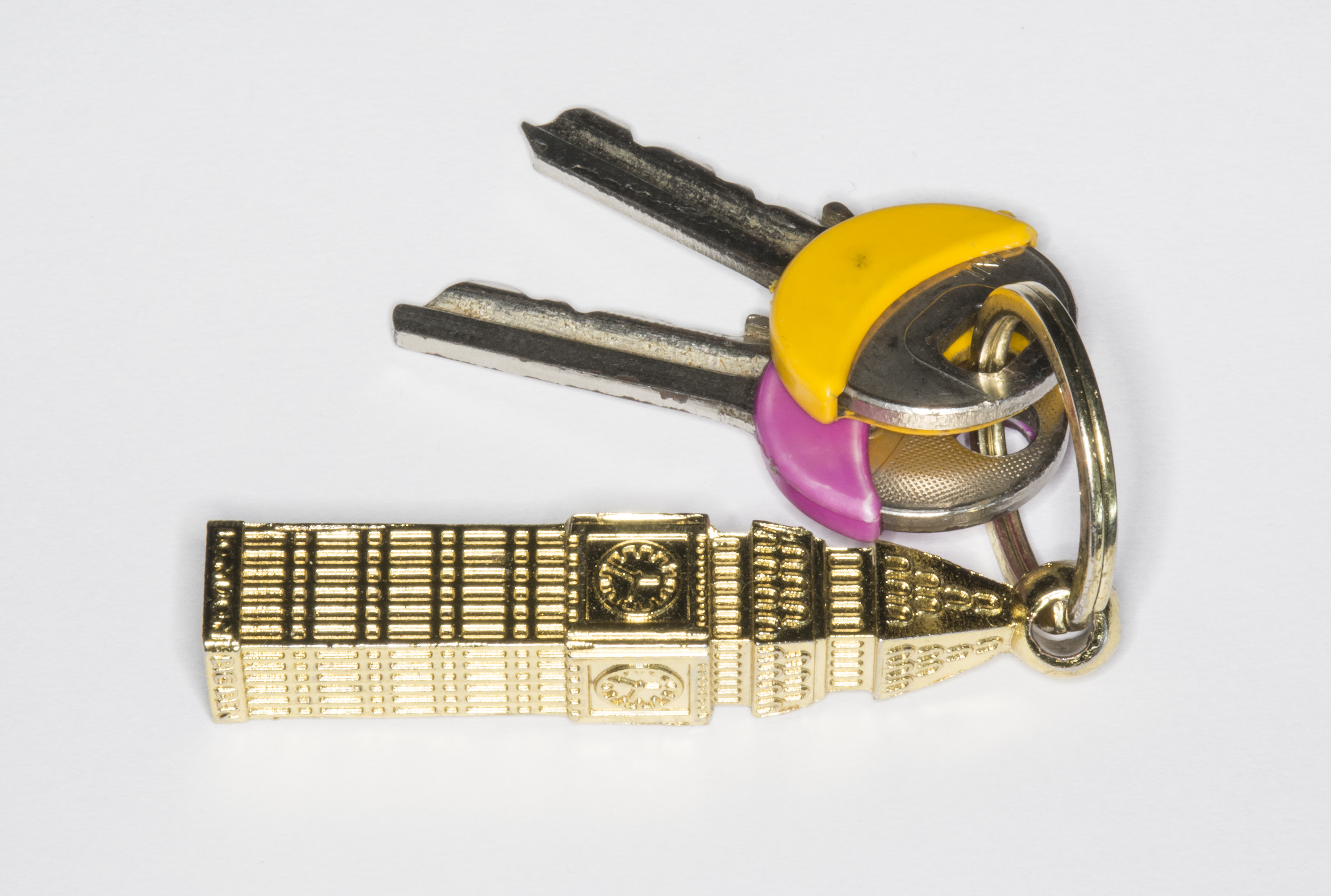 Key fobs